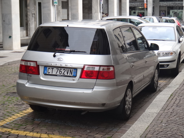 We didn't see this model in Australia.